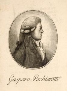 The castrato Gaspare Pacchierotti